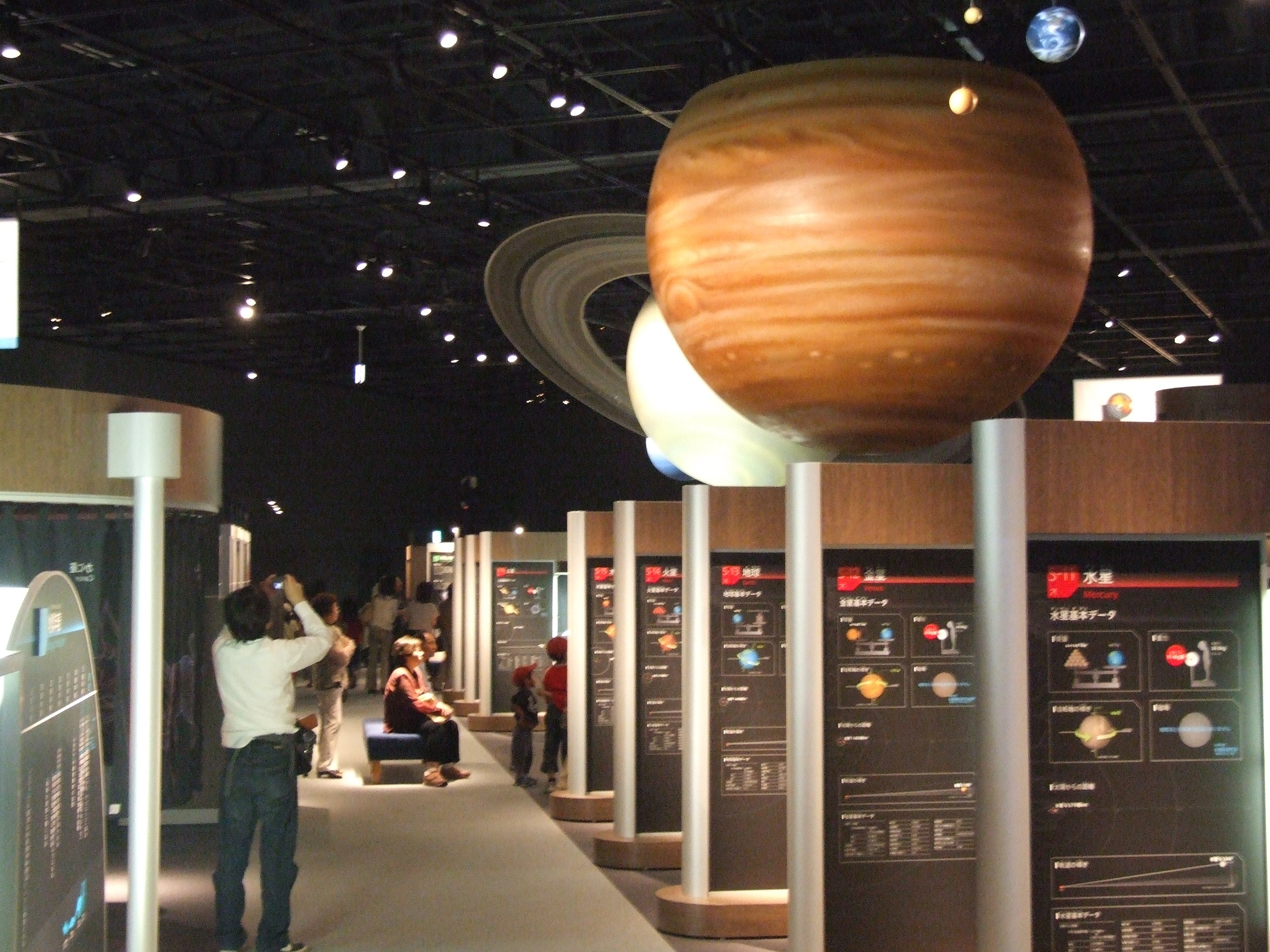 Sendai Astronomical Observatory. Nishikigaoka 9 chōme, Aoba ward, Sendai, Miyagi prefecture, Japan. Exhibition Room.